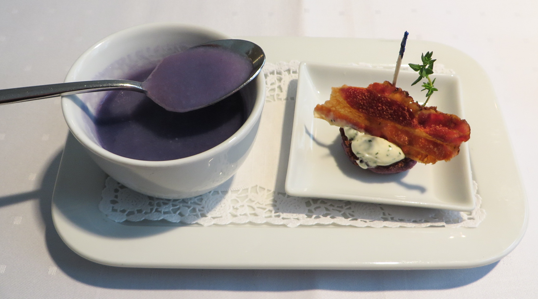 Blue potato soup with Blaue St. Galler potatos, Switzerland